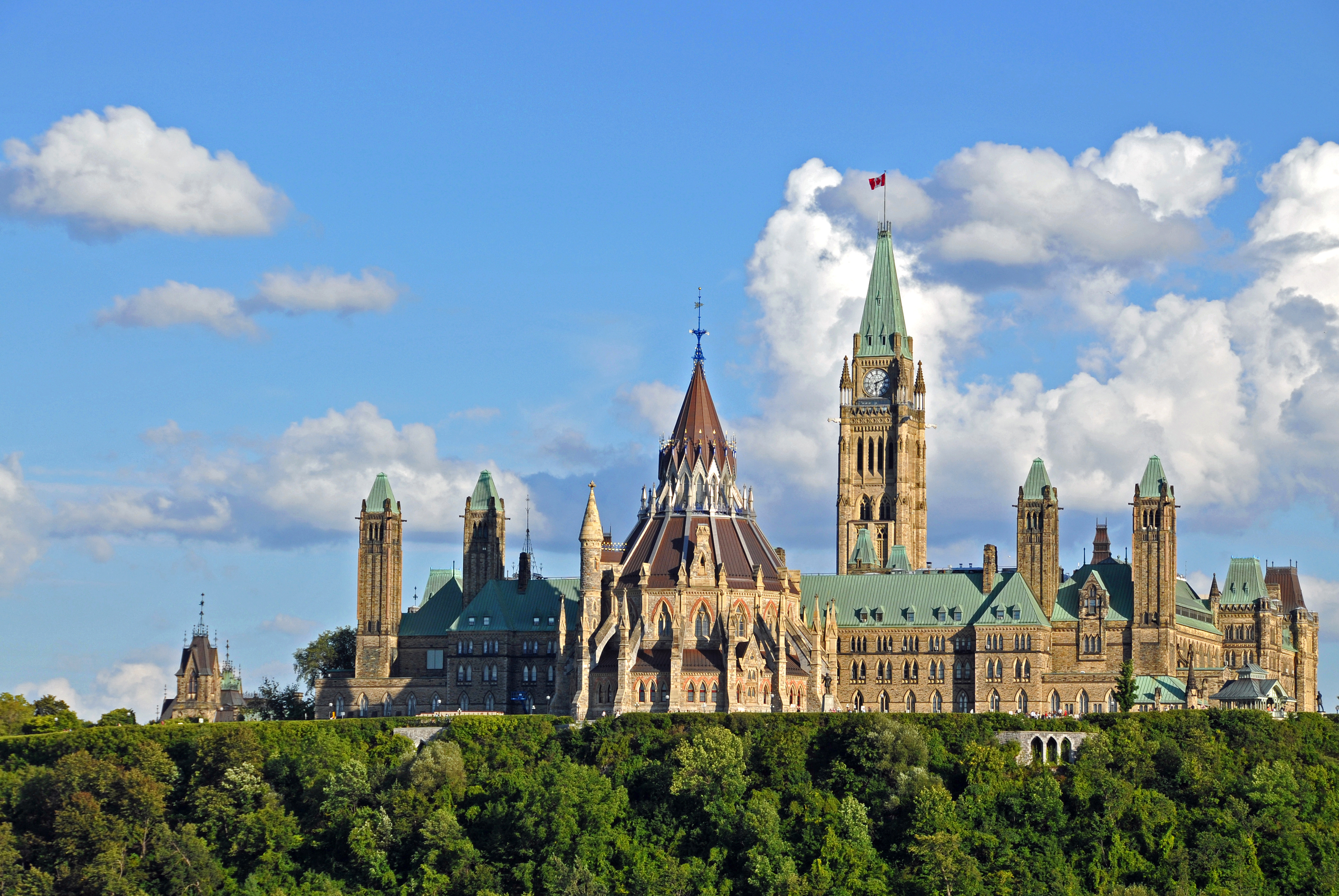 These are the Canadian Parliamnet Buildings as seen from Hull, Quebec.